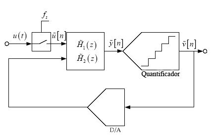 Sigma-Delta discret time